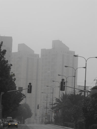 Wind, rain, dust & damage